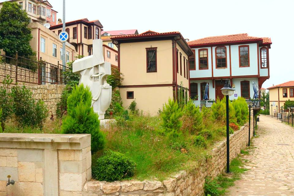 Ordu Tasbasi houses